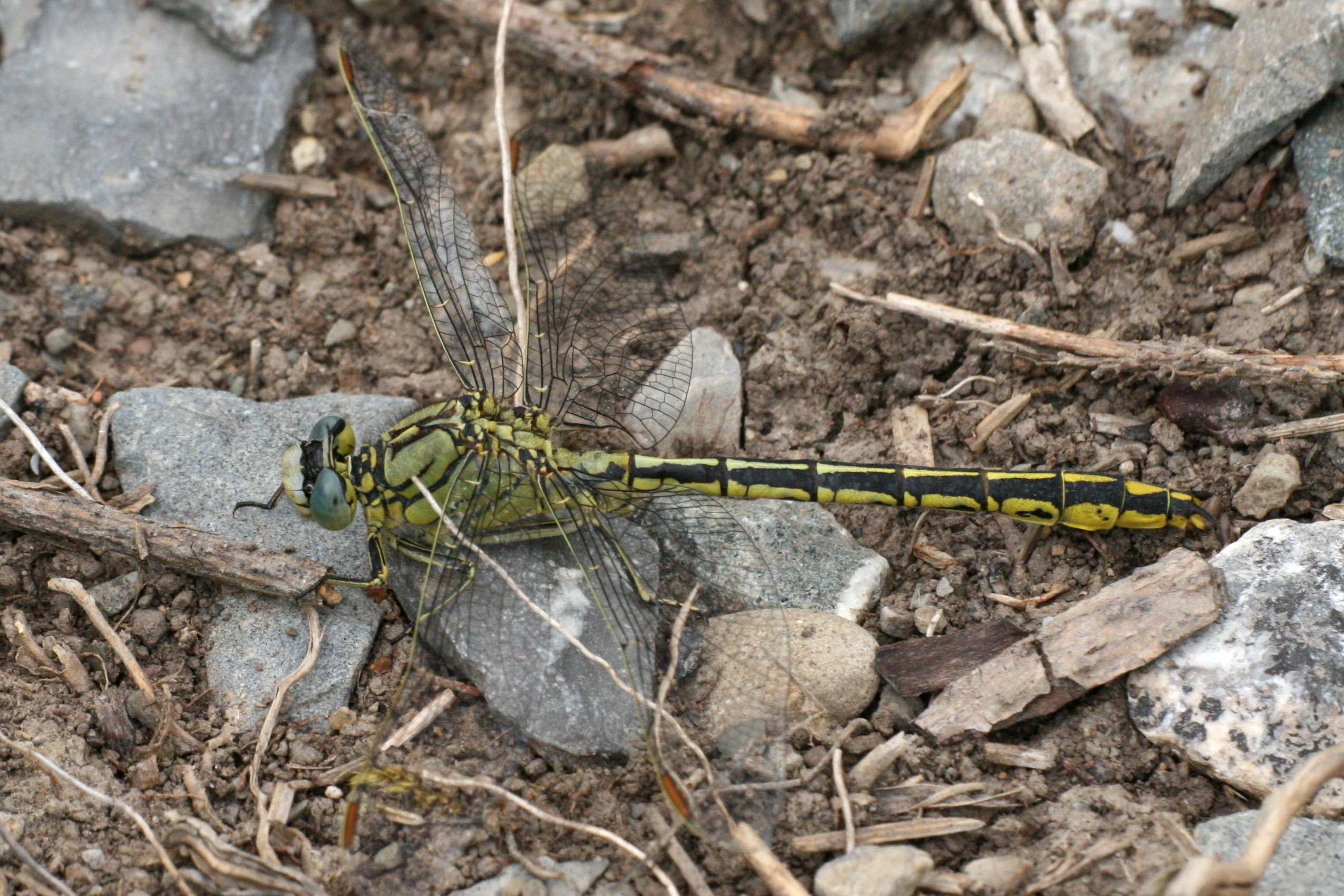 Male of the Western Clubtail (Gomphus pulchellus), photographed in Weinsberg